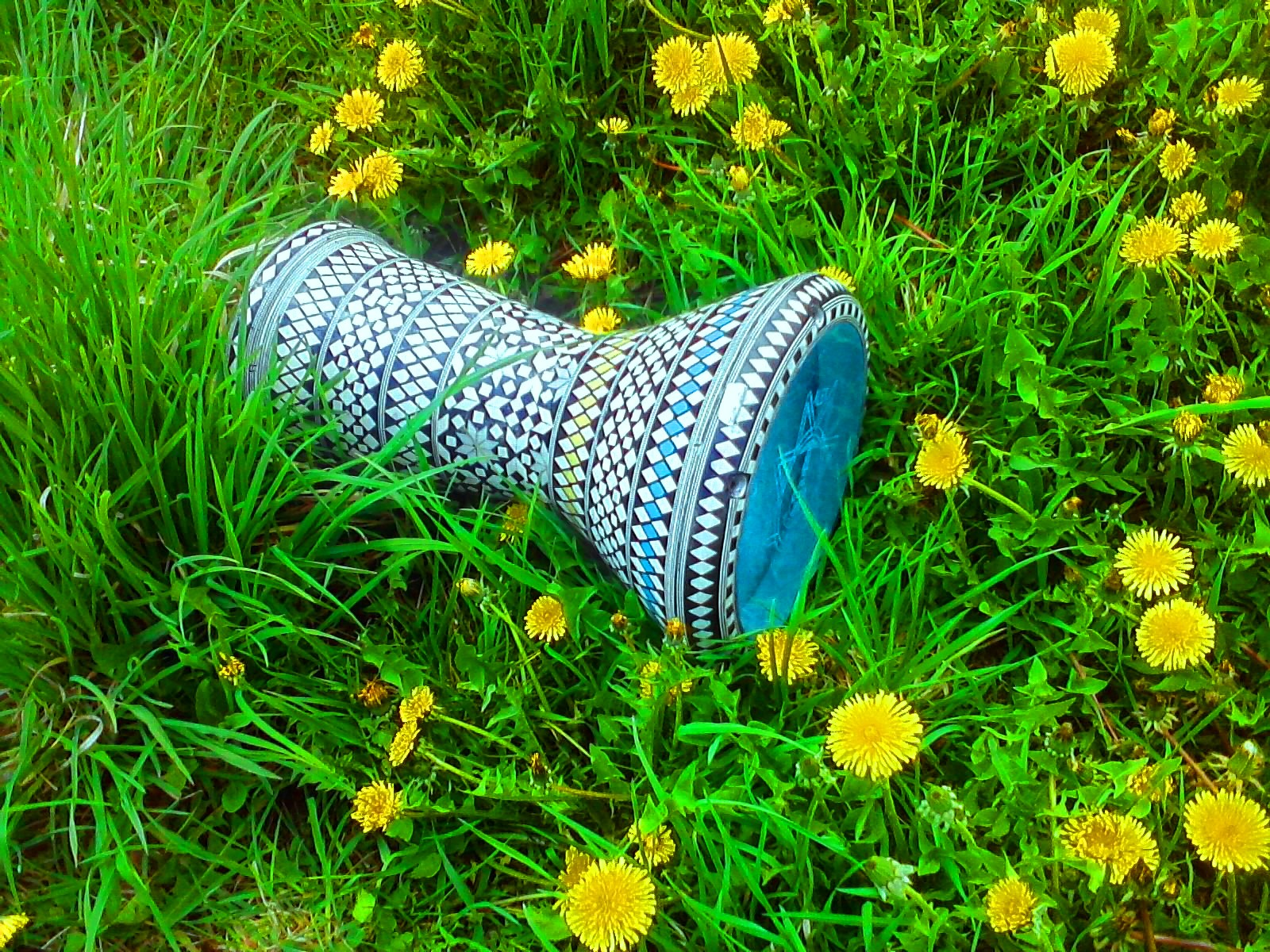 Darbuka